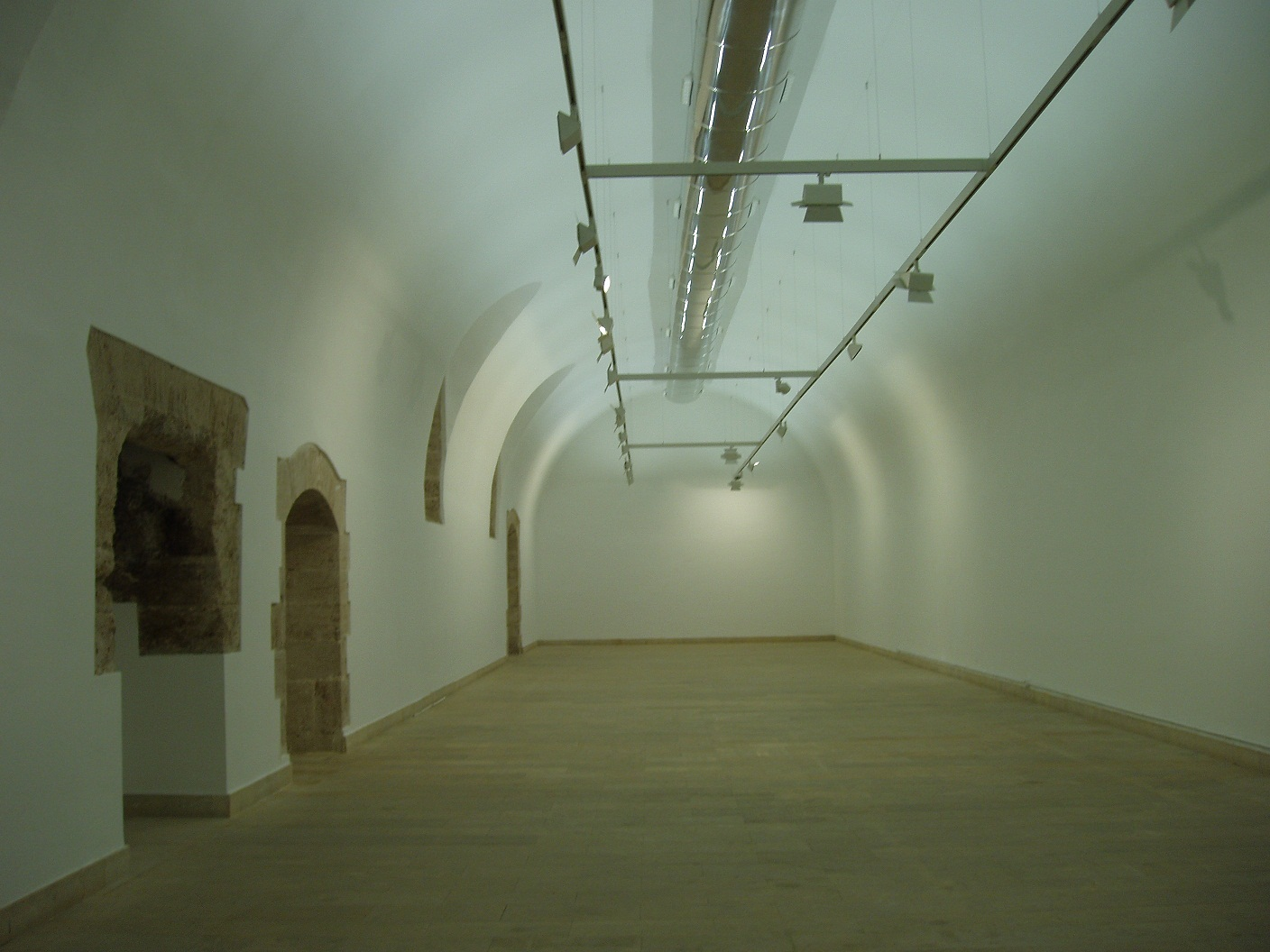 Interior Sala Parpalló